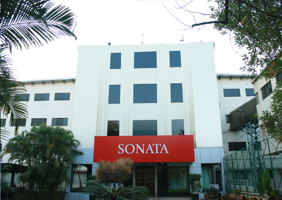 Sonata Nandi